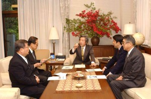 Jun'ichirō Koizumi, Prime Minister, and Yasuo Fukuda, Chief Cabinet Secretary, talked with Shinzō Abe, Kōsei Ueno and Teijirō Furukawa, Deputy Chief Cabinet Secretaries, at the Prime Minister's Official Residence in Chiyoda Ward, Tōkyō Metropolis on April 26, 2002.